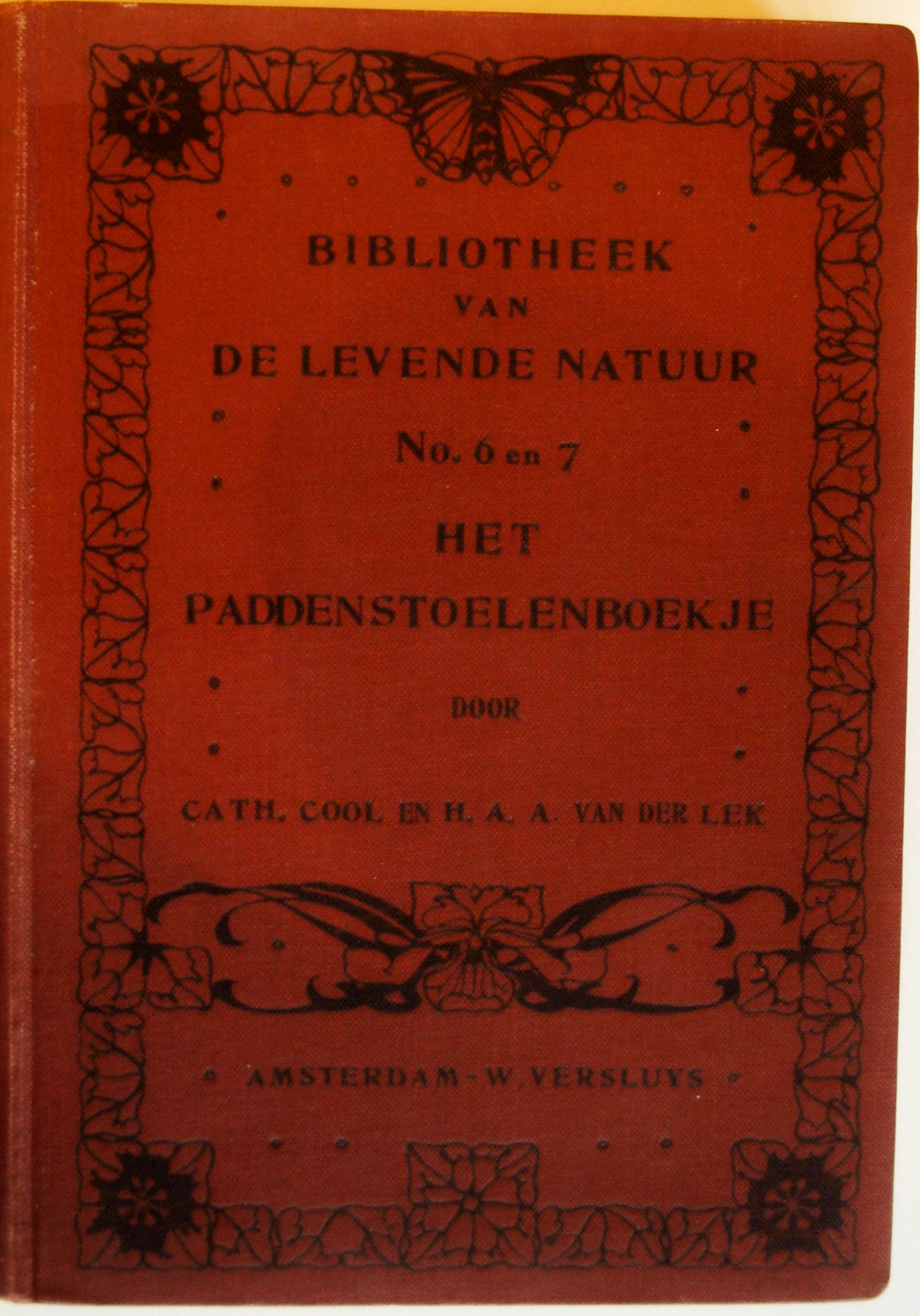 cover of Het Paddenstoelenboekje, 1913 by Cath. Cool and H.A.A. van der Lek